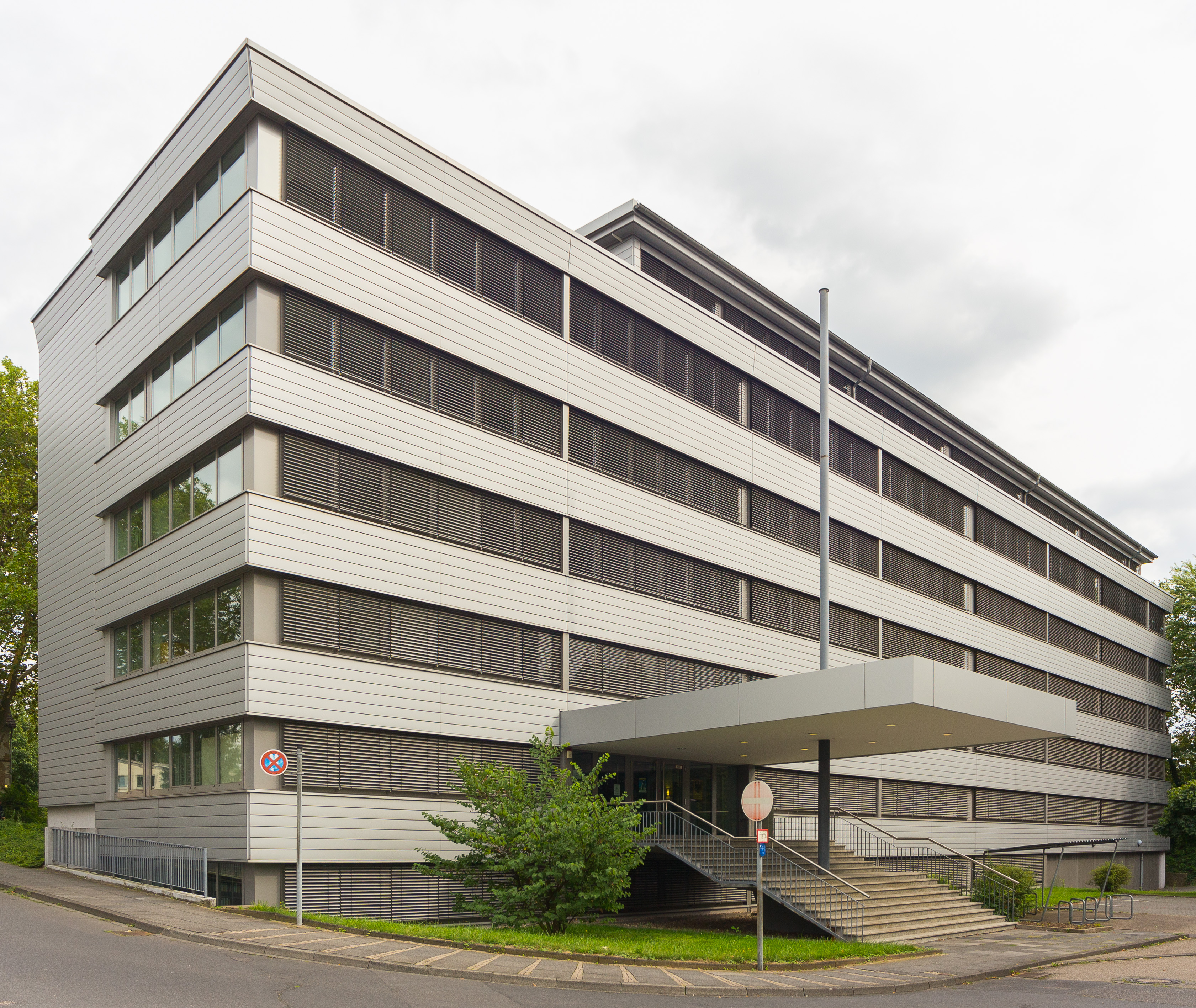 Office building of the Federal Central Tax Office, Platanenweg 33, Bonn-Beuel: view direction South-east